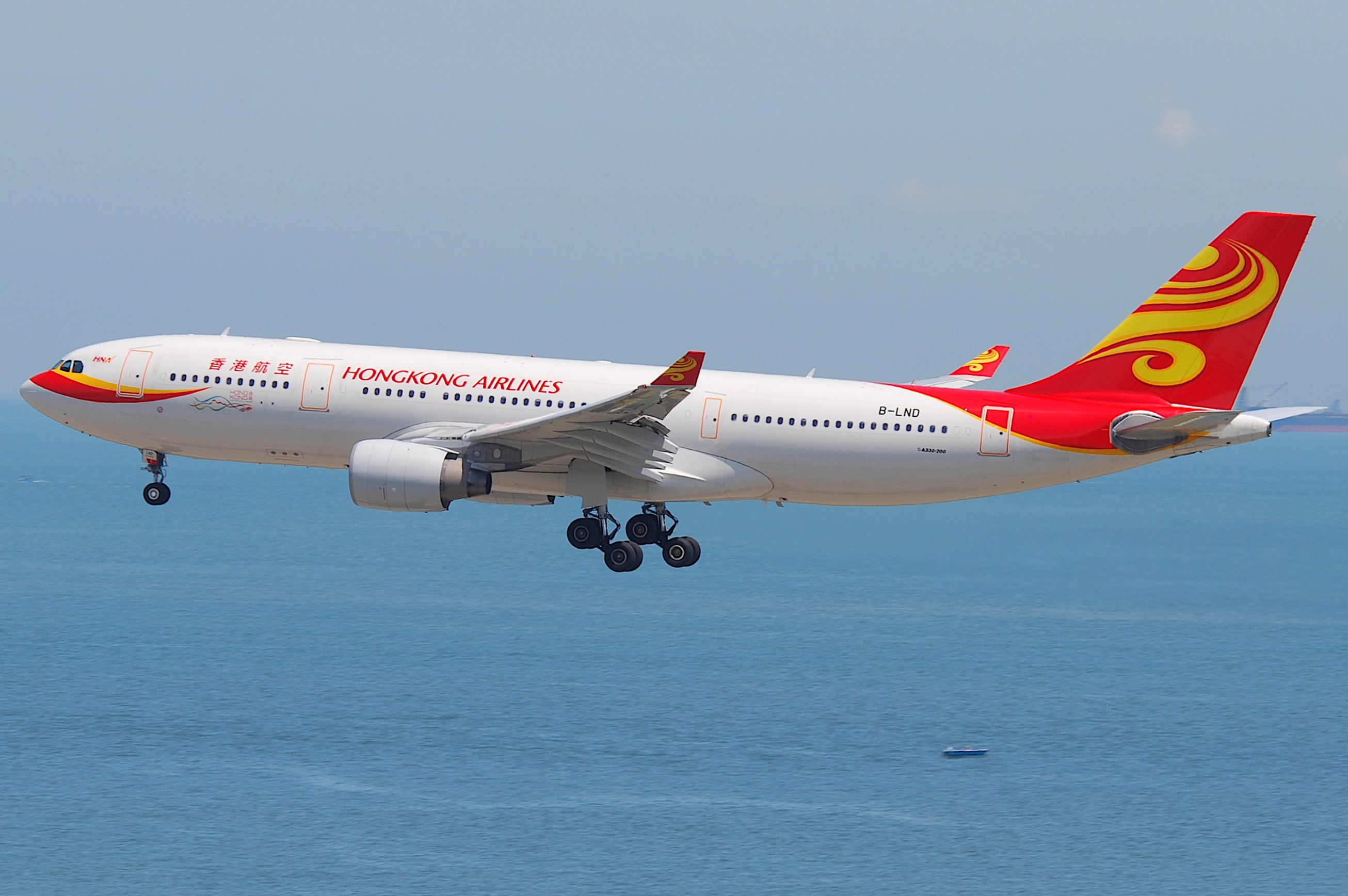 HongKong Airlines Airbus A330-200; B-LND@HKG;04.08.2011/615cm